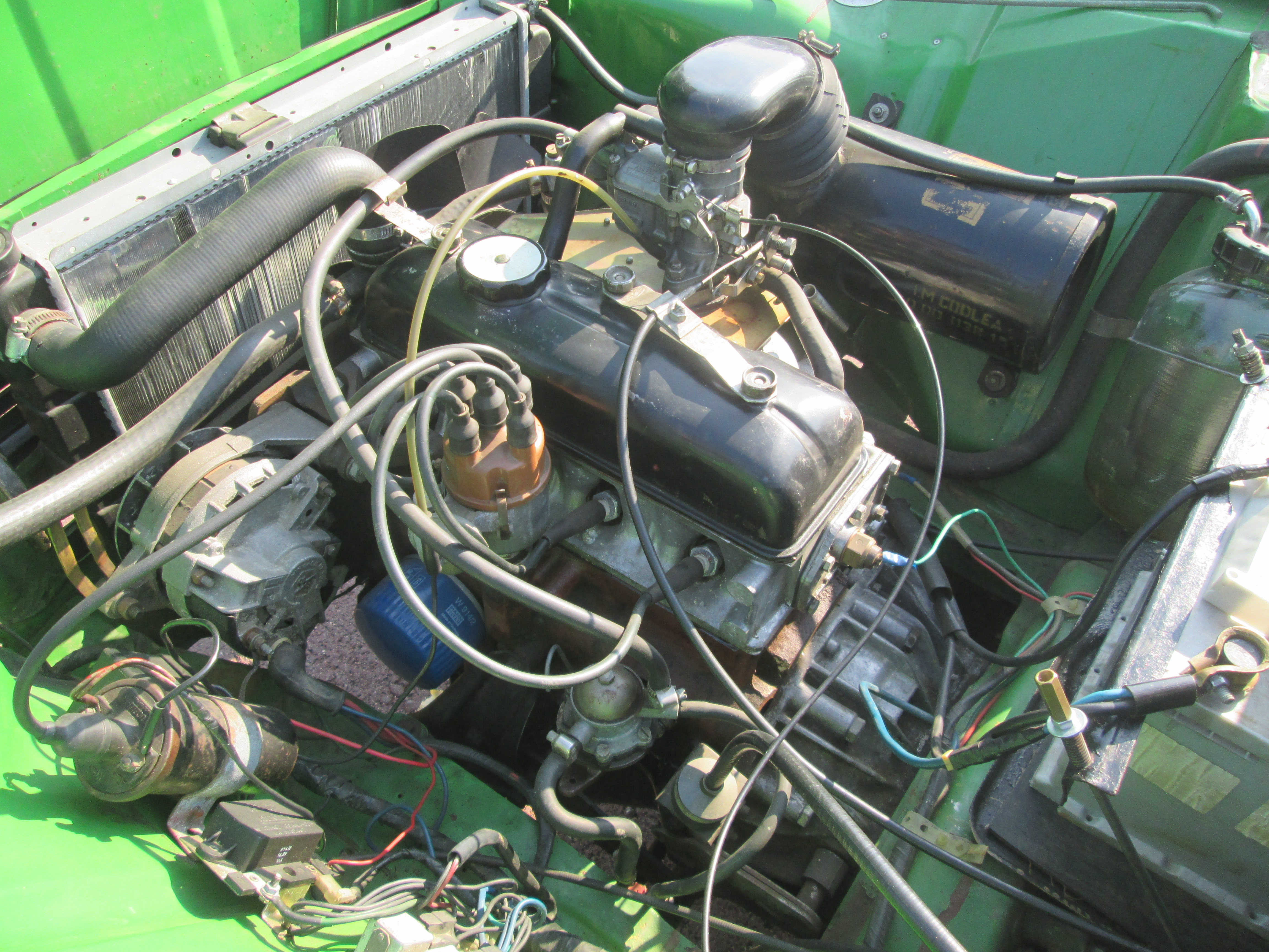 Dacia 1310 engine at the Autumn Retroparade, Bucharest